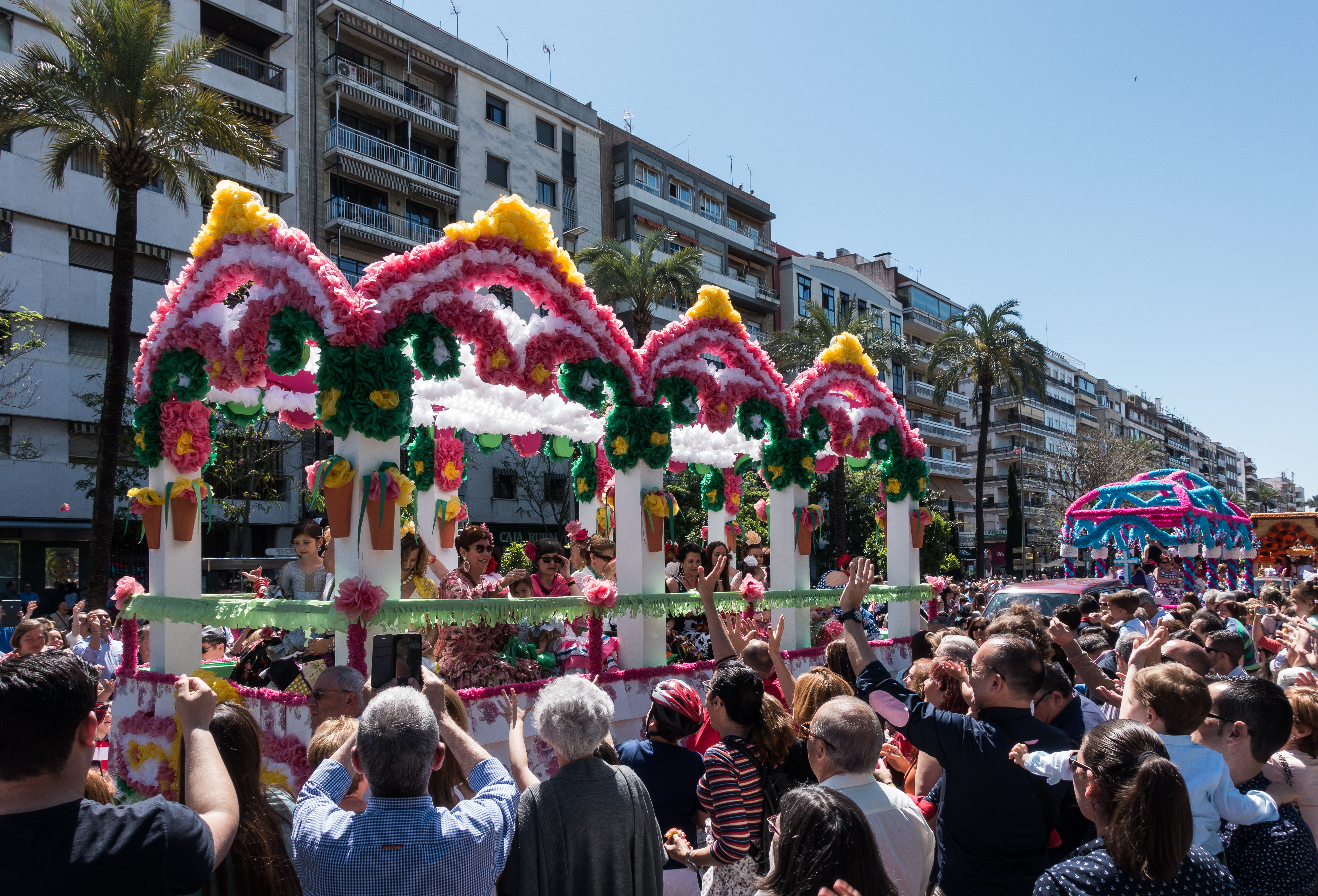 Battle of Flowers 2016 in Cordoba, Spain.